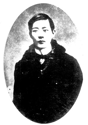 Liu Shipei